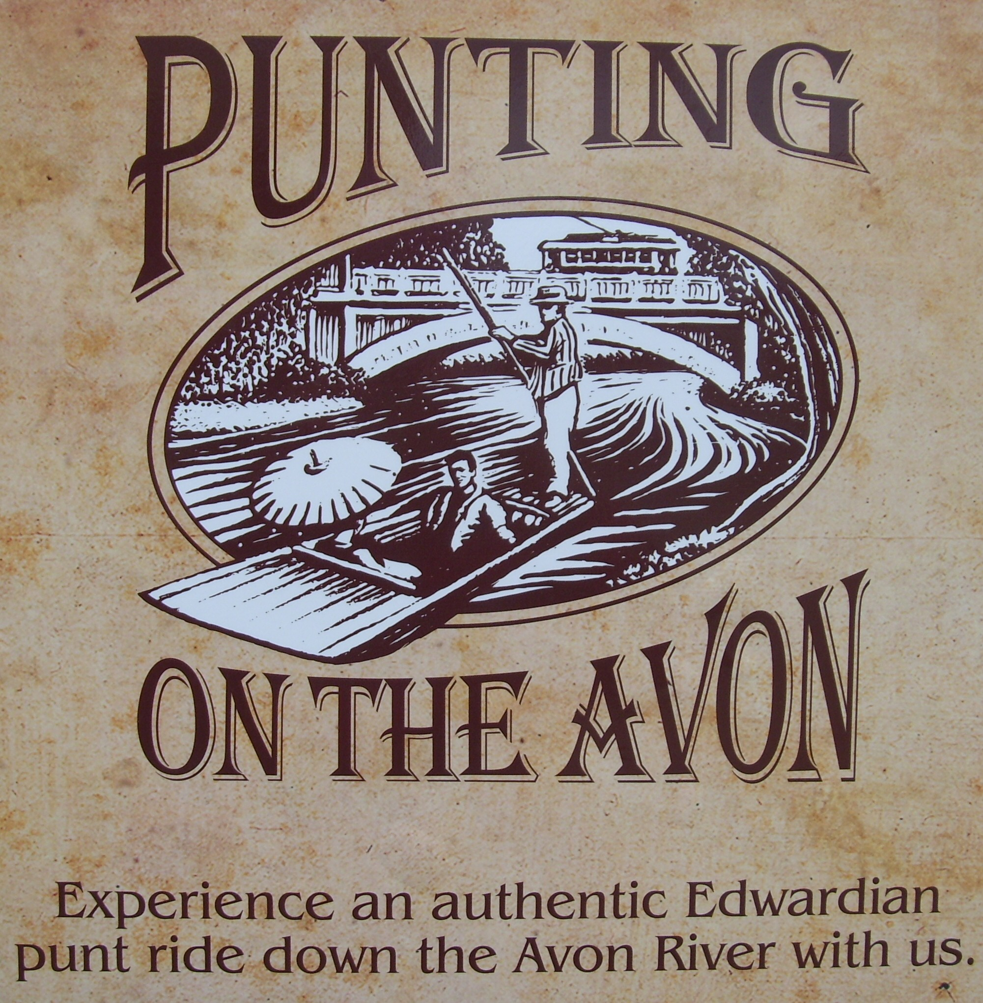 Punting on the Avon (Christchurch N.Z.) sign